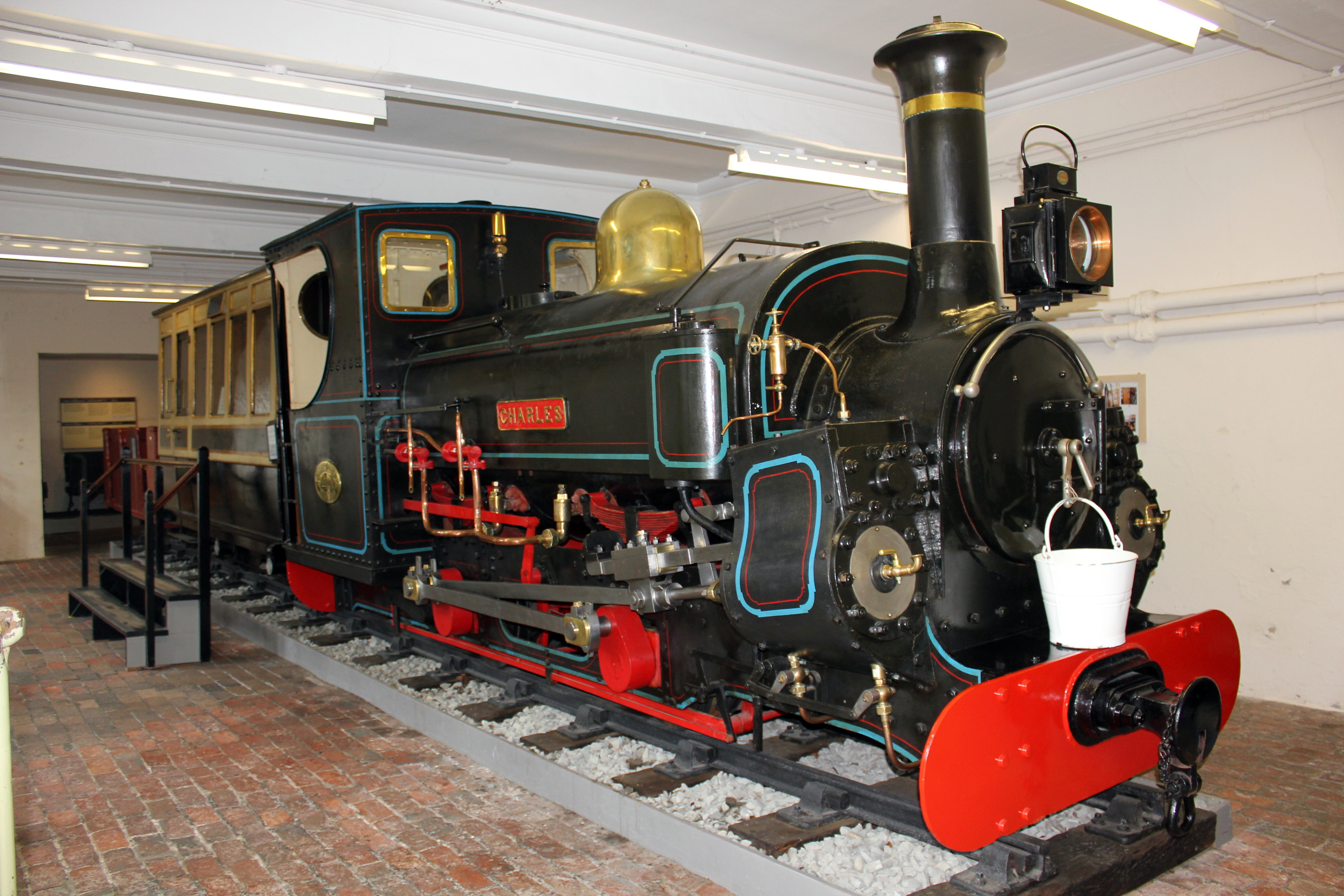 Charles at Penrhyn Castle. Charles is a saddle tank locomotive which has close connections with Penrhyn. Charles was one of the 'main line' engines used at Penrhyn Quarry. Built by Hunslet Engine Co of Leeds in 1882, Charles worked until the 1950s and after restoration was placed on permanent loan to the National Trust.